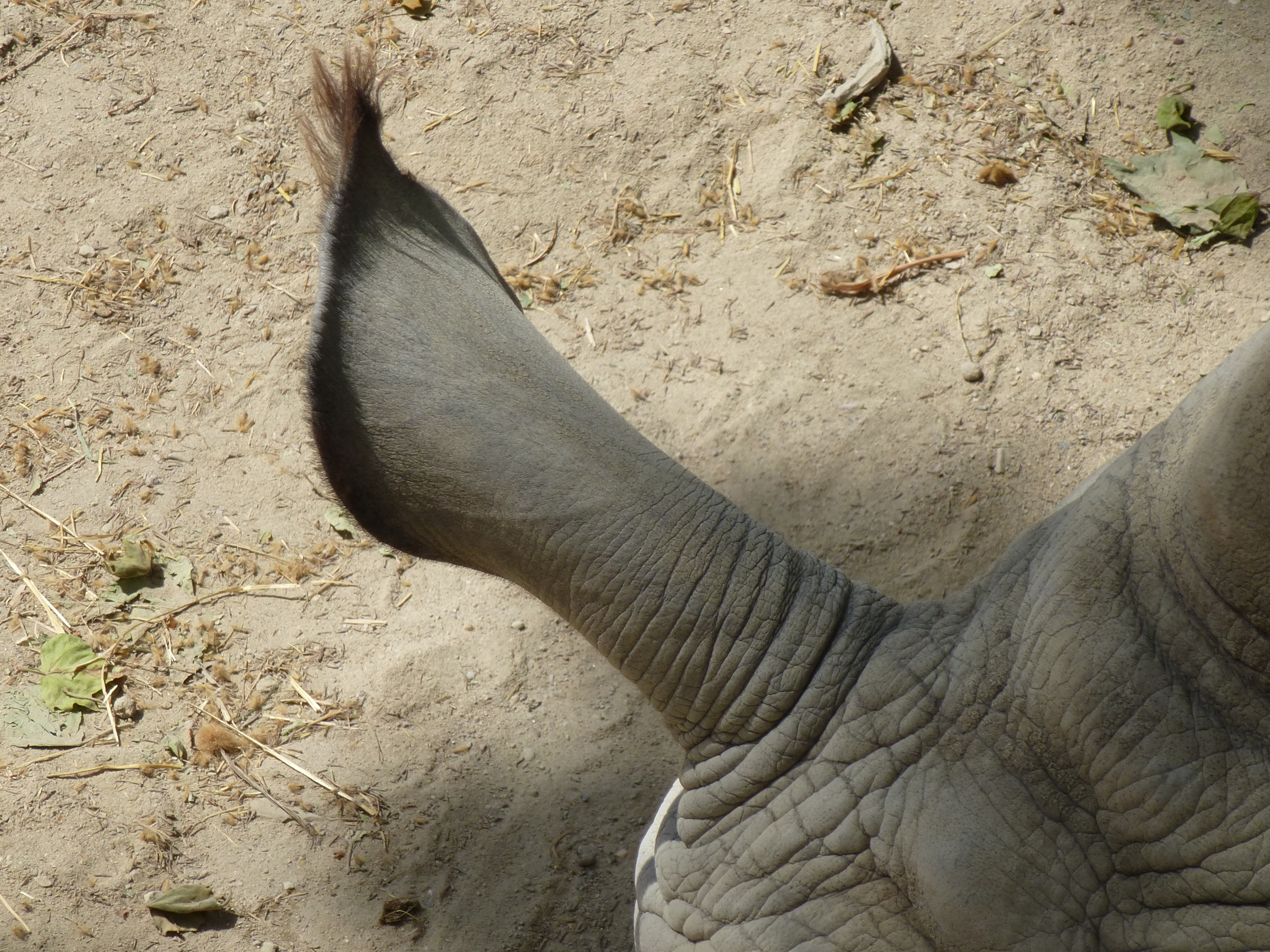 Ceratotherium simum, ear, in Lisbon Zoo. Portugal